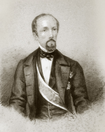 Portrait of João de Saldanha Oliveira Juzarte Figueira e Sousa, 3rd Count of Rio Maior, by his daughter Teresa de Saldanha.